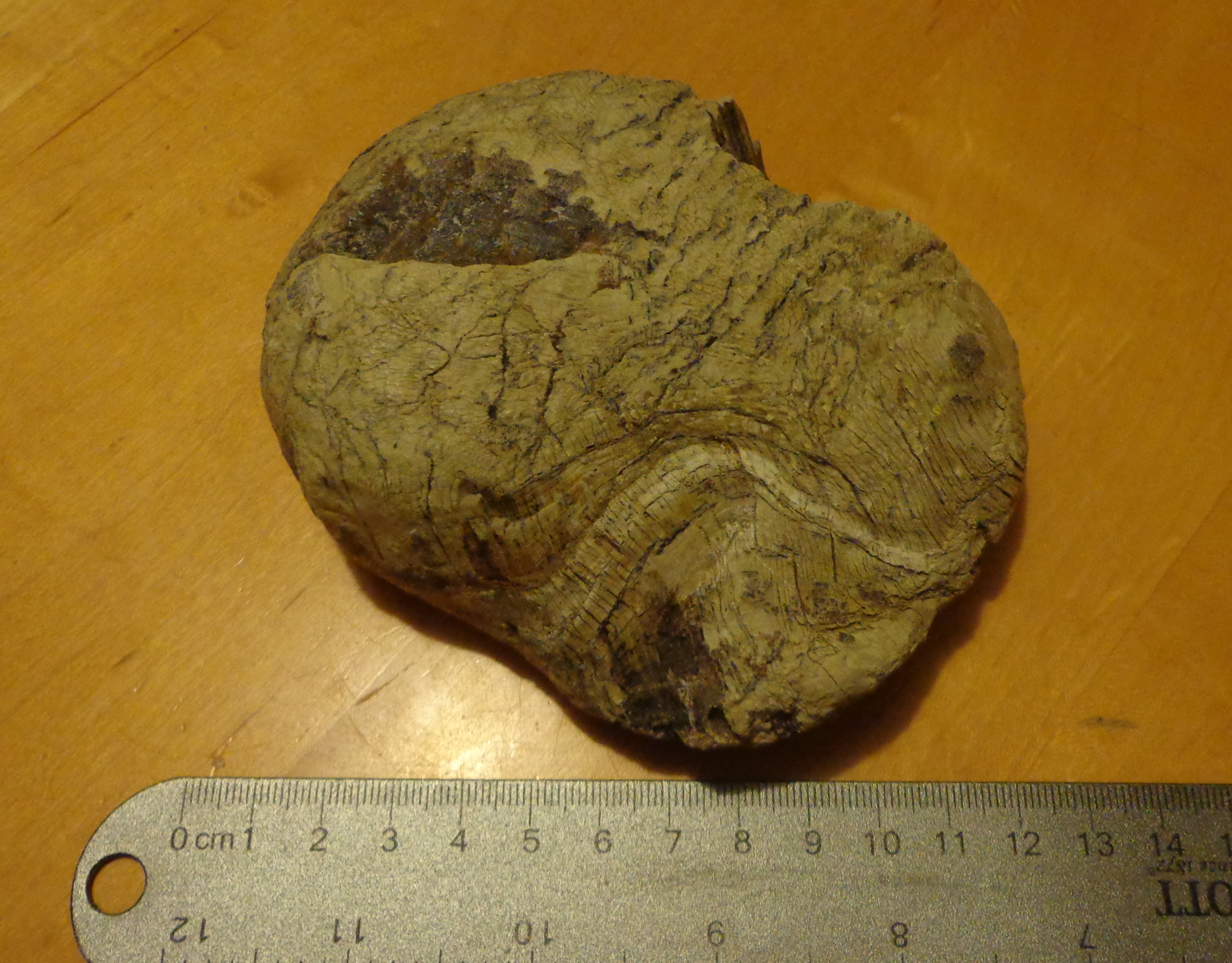 A small sample of Pecoraite associated with the ultramafic rocks in northern Vermont.